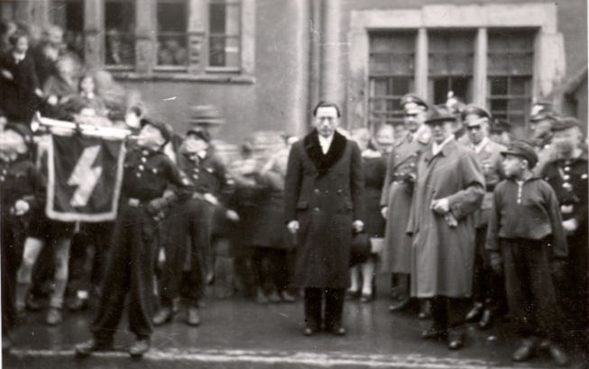 Lü I Wen